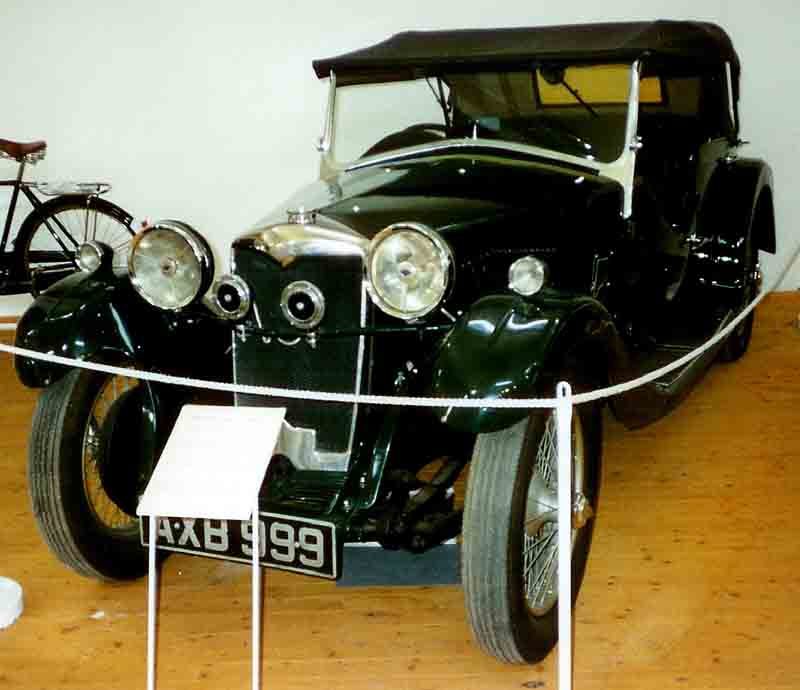 Riley Lynx Tourer 1934